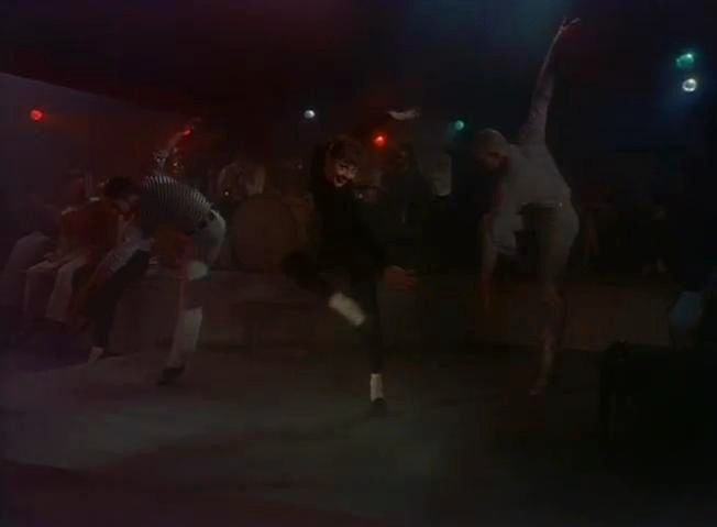 Audrey Hepburn in Funny Face - trailer (cropped screenshot)